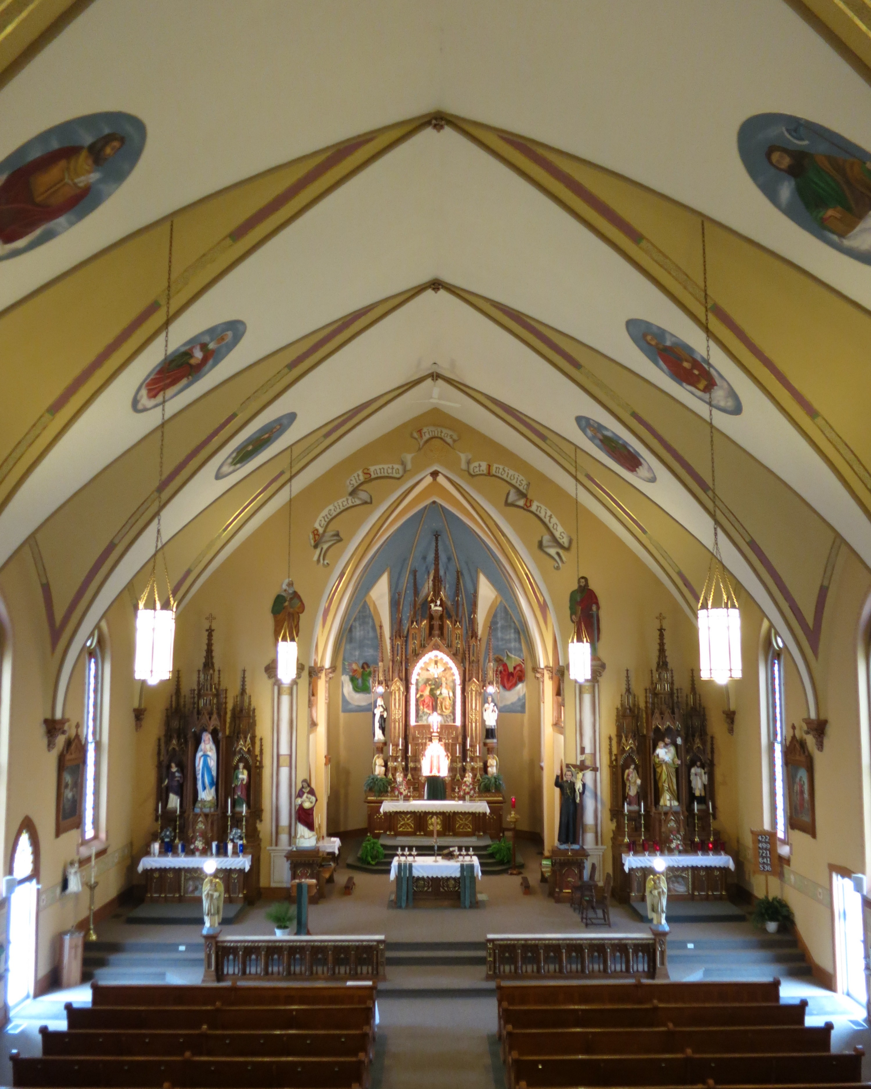 Holy Trinity Catholic Church (Trinity, Indiana) - nave, view from the loft 2